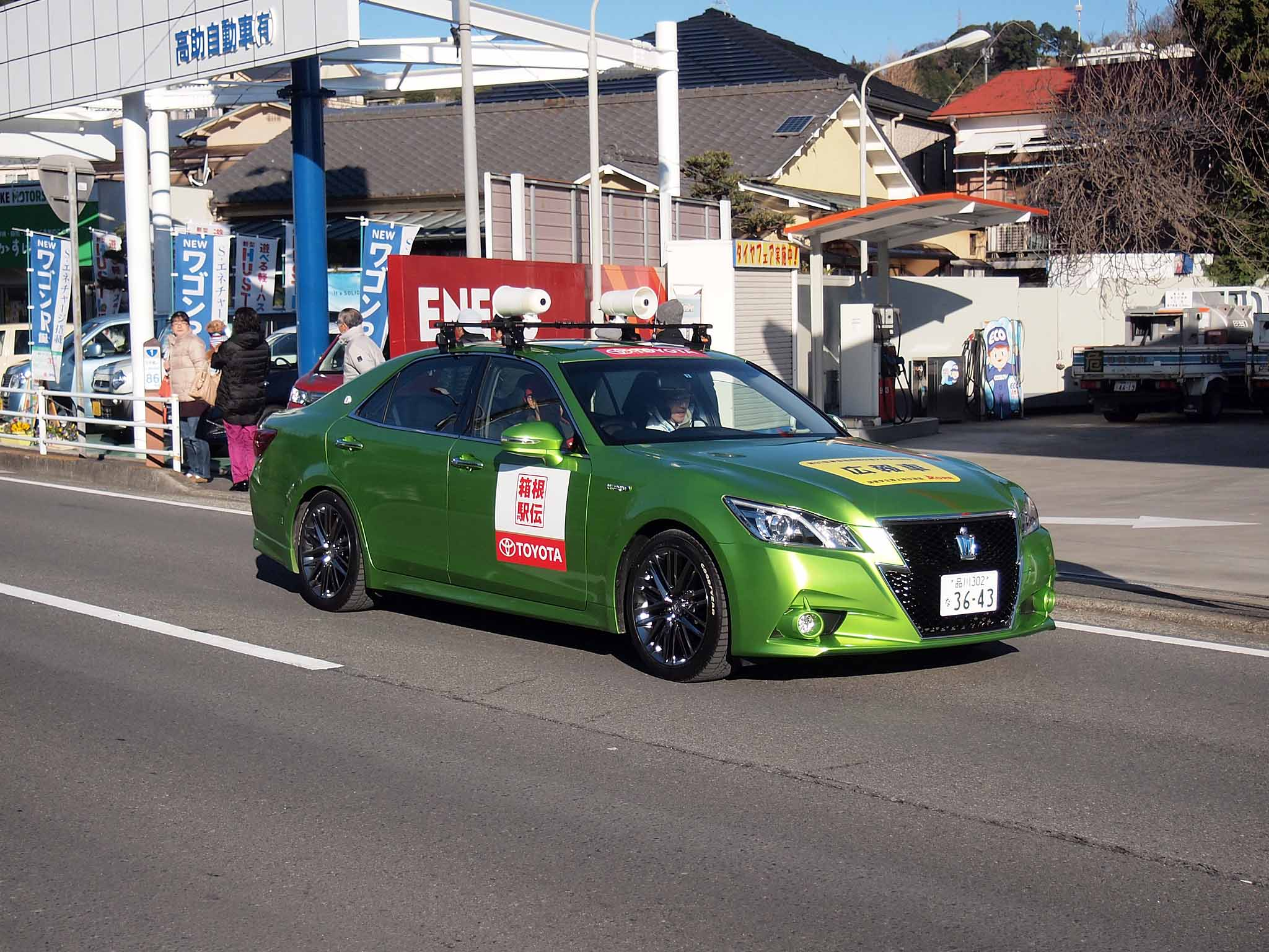 Toyota Crown Athlete S "Bright Green Crown" operated as announse car at 91st Hakone Ekiden 2015. Model: DAA-AWS210 License plate: TKS302 NA3643 Place: neighbour of Hakone-Itabashi Station, Odawara City, Kanagawa Japan